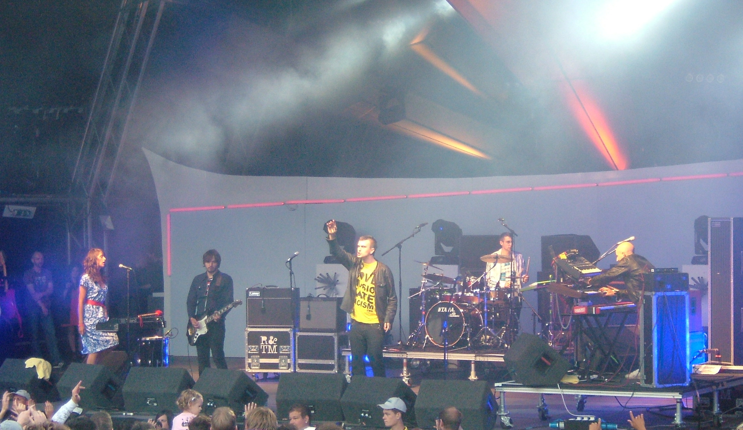 Reverend & the Makers on the main stage at Summer Sundae, Leicester, 10 August 2008